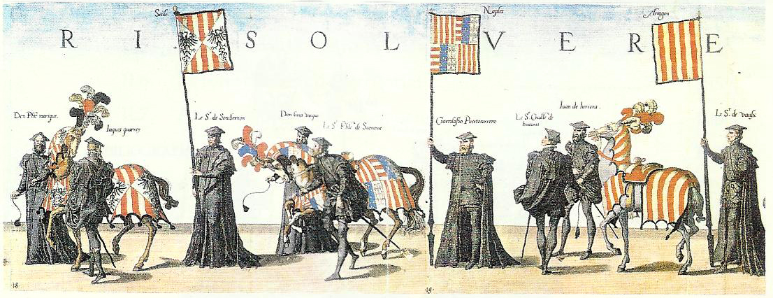 Emblemas heráldicos de los reinos privativos de Aragón, Nápoles y Sicilia en guiones y gualdrapas de los caballos en las exequias por la muerte en 1558 de Carlos I de España y V como emperador del Sacro Imperio Romano-Germánico. Calcografía coloreada.